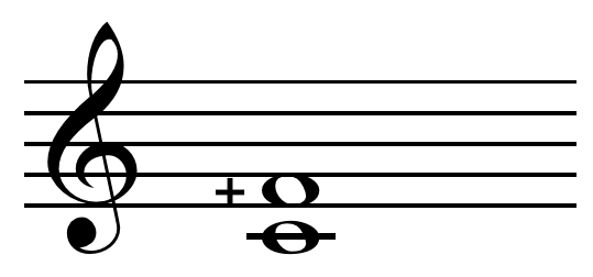 Wolf fourth on C = F+. 27:20 = 519.55 cents. Limit: 5-limit.